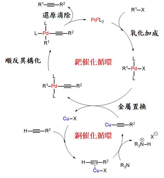 Sonogashira Coupling Mechanism